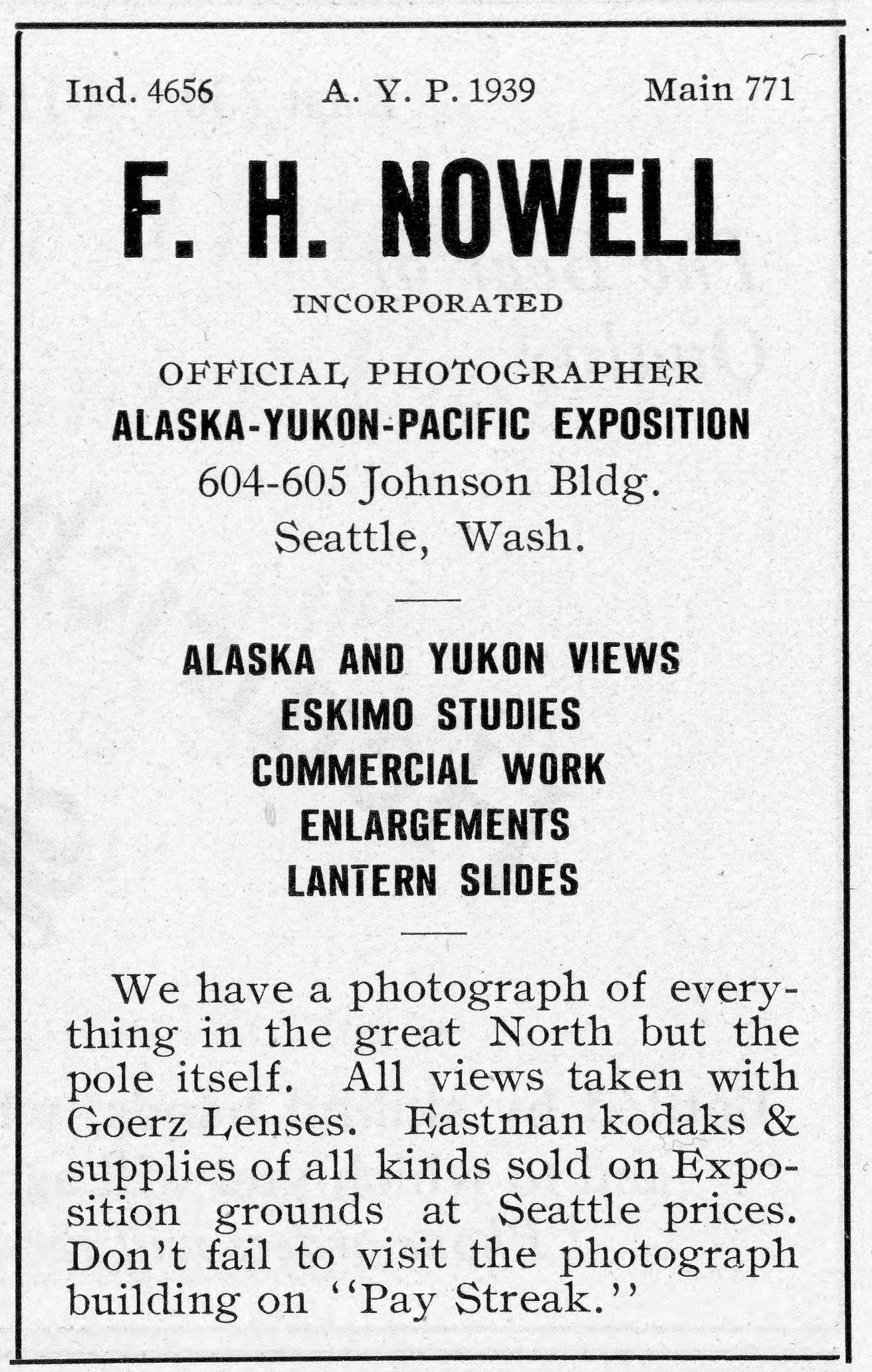 Ad for photographer Frank H. Nowell in the official program of the Alaska-Yukon-Pacific Exposition, 1909. Nowell was the official photographer of the Exposition.